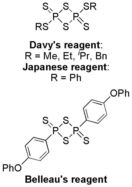 Chemical structures of 1,3,2,4-dithiadiphosphetane reagents; Davy's reagent, Japanese reagent, Belleau's reagent.